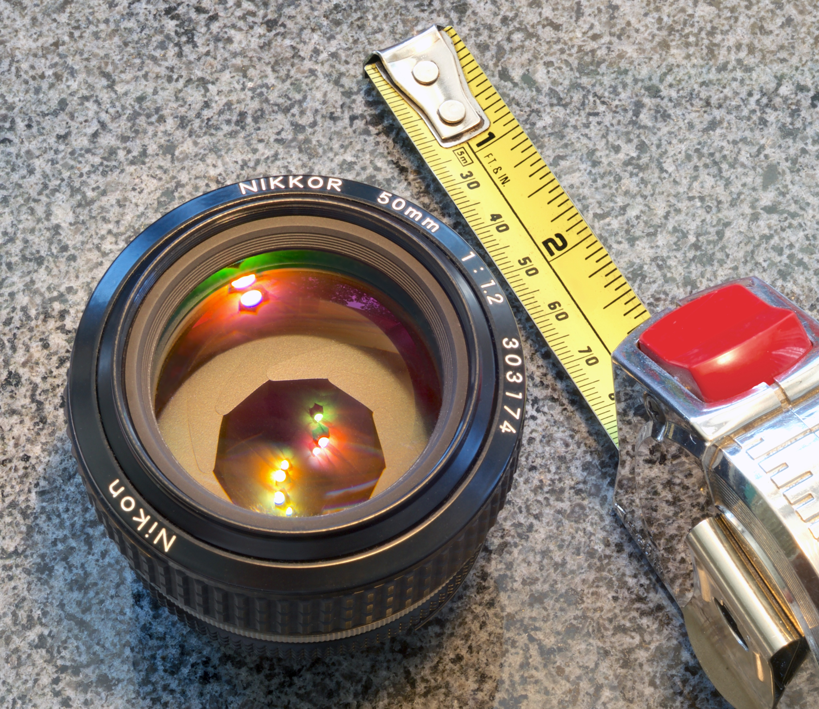 The illuminating power of electronic photoflash devices are often measured as guide numbers, which are a composite unit of measure comprising two factors: aperture ratio and distance. Guide numbers may be expressed in either of these units of measure: f-number⋅meters or f-number⋅feet. Camera: Nikon-Df Saved file type: 14-bit RAW Lens: Micro-NIKKOR 55mm f/3.5 macro Filter: B+W 52mm HTC Kaesemann Circular Polarizer Scene illuminance: EV 9 (1280 lux) Aperture: f/22 Shutter: 2 seconds Sensitivity: ISO 200 Distance (mid): 7 inches Lighting: Natural indirect plus LED photoflood with diffuser Avg. diametric crop from original: 63%